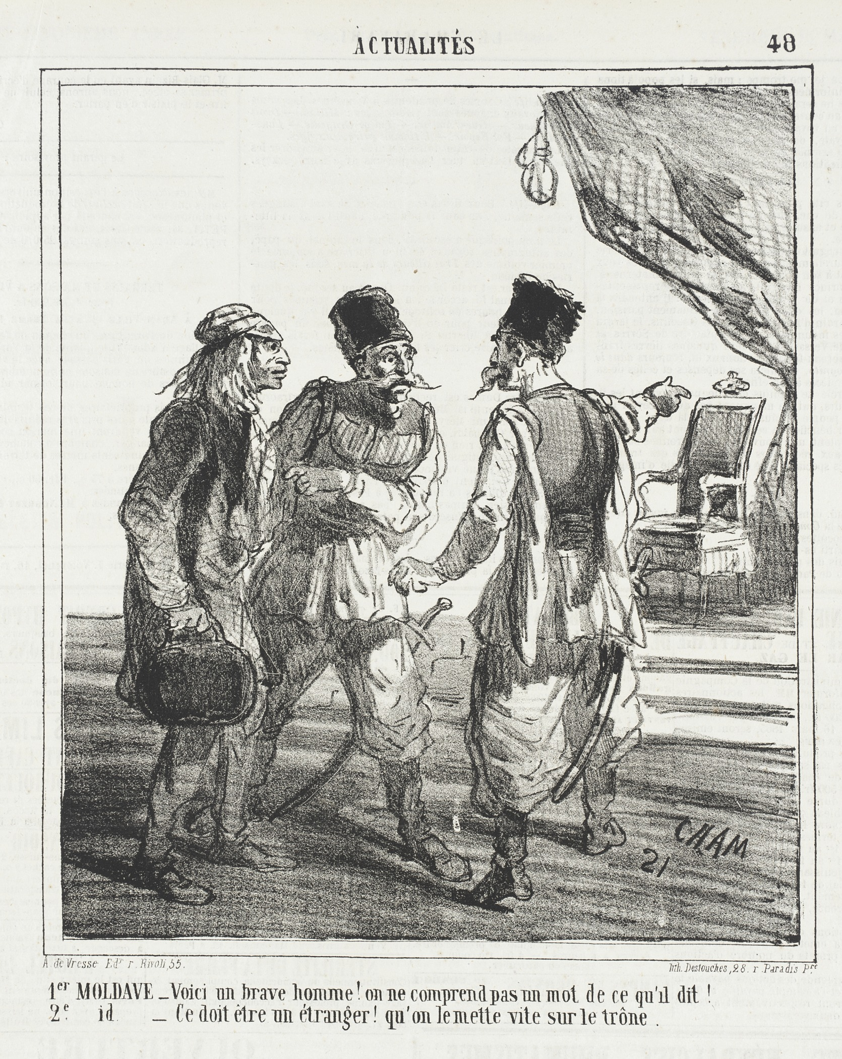 France, 1866 Series: Actualités Periodical: Le Charivari, Friday, 16 March 1866 Prints; lithographs Lithograph Gift of George Longstreet (M.76.132.36) Prints and Drawings